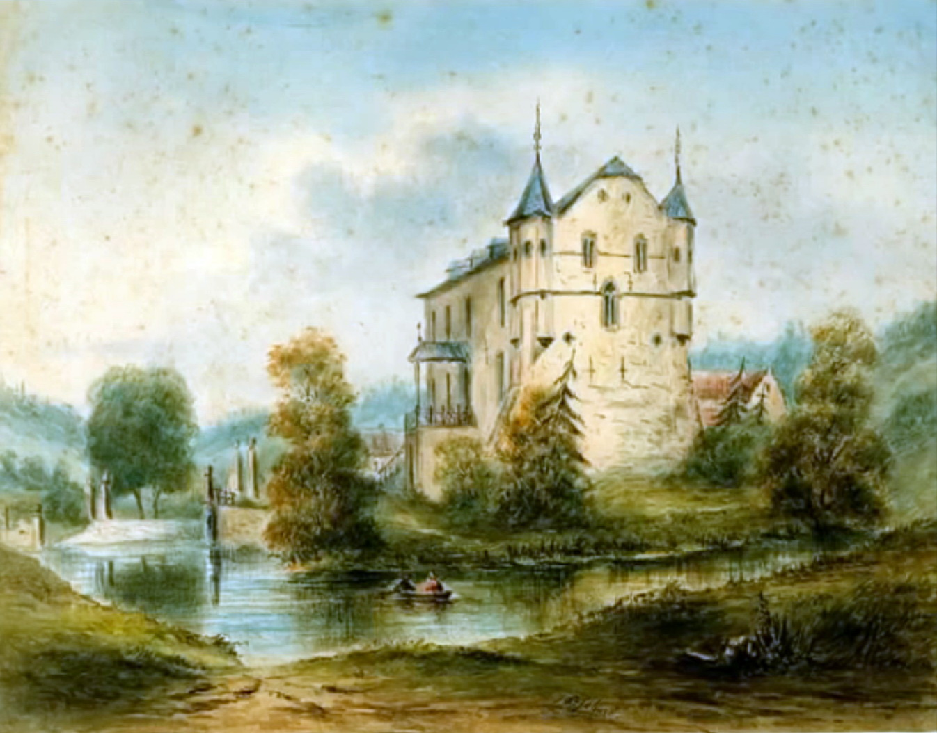 Schaloen Castle near Valkenburg, Limburg, the Netherlands. Unknown artist, 19th c?